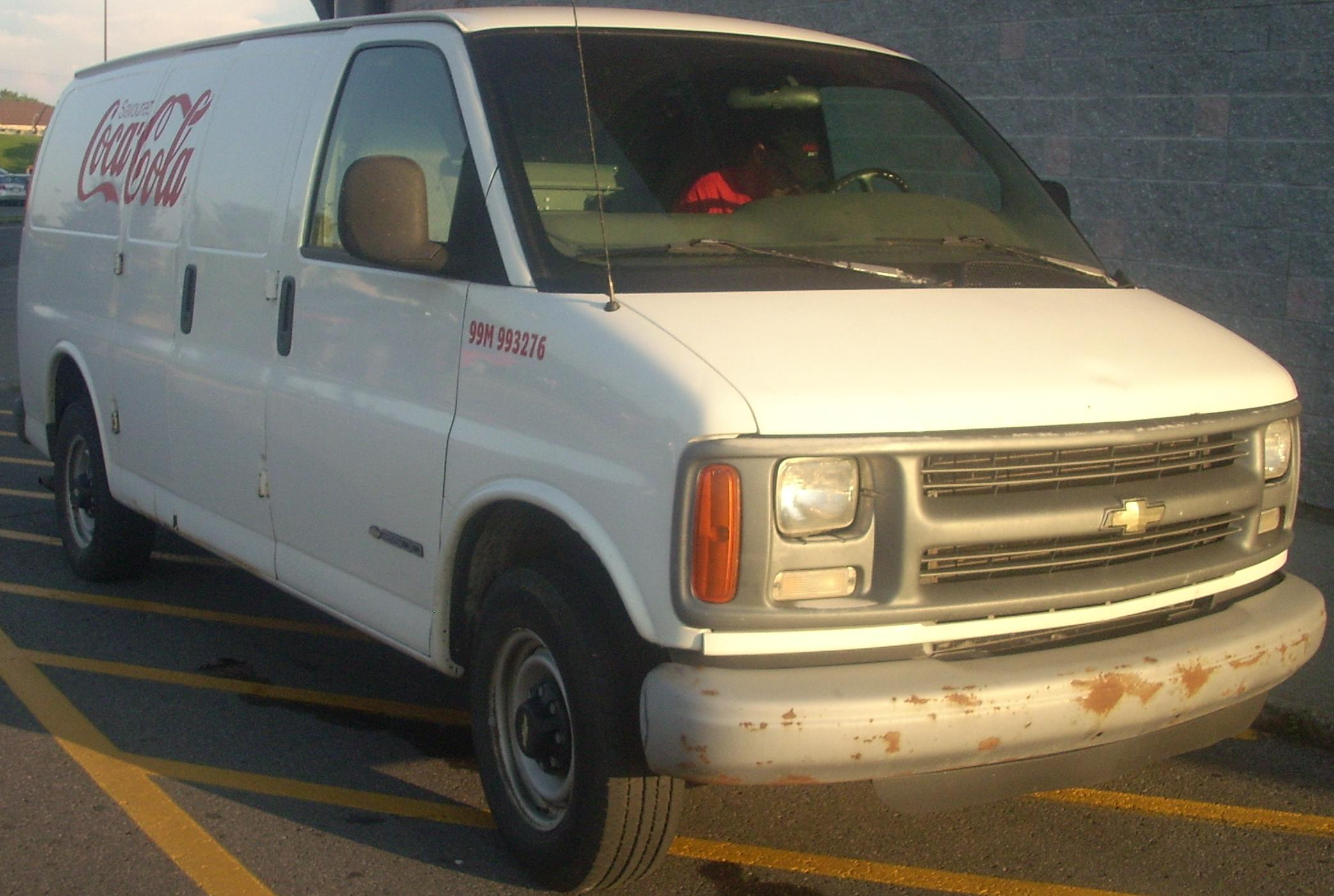 1996-2002 Chevrolet Express Coca-Cola photographed in Kirkland, Quebec, Canada.